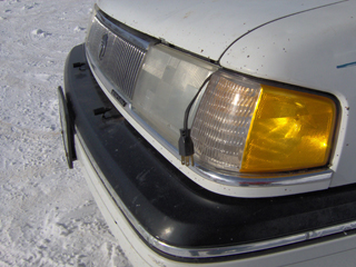 The block heater cord of a 1990 Mercury Topaz.